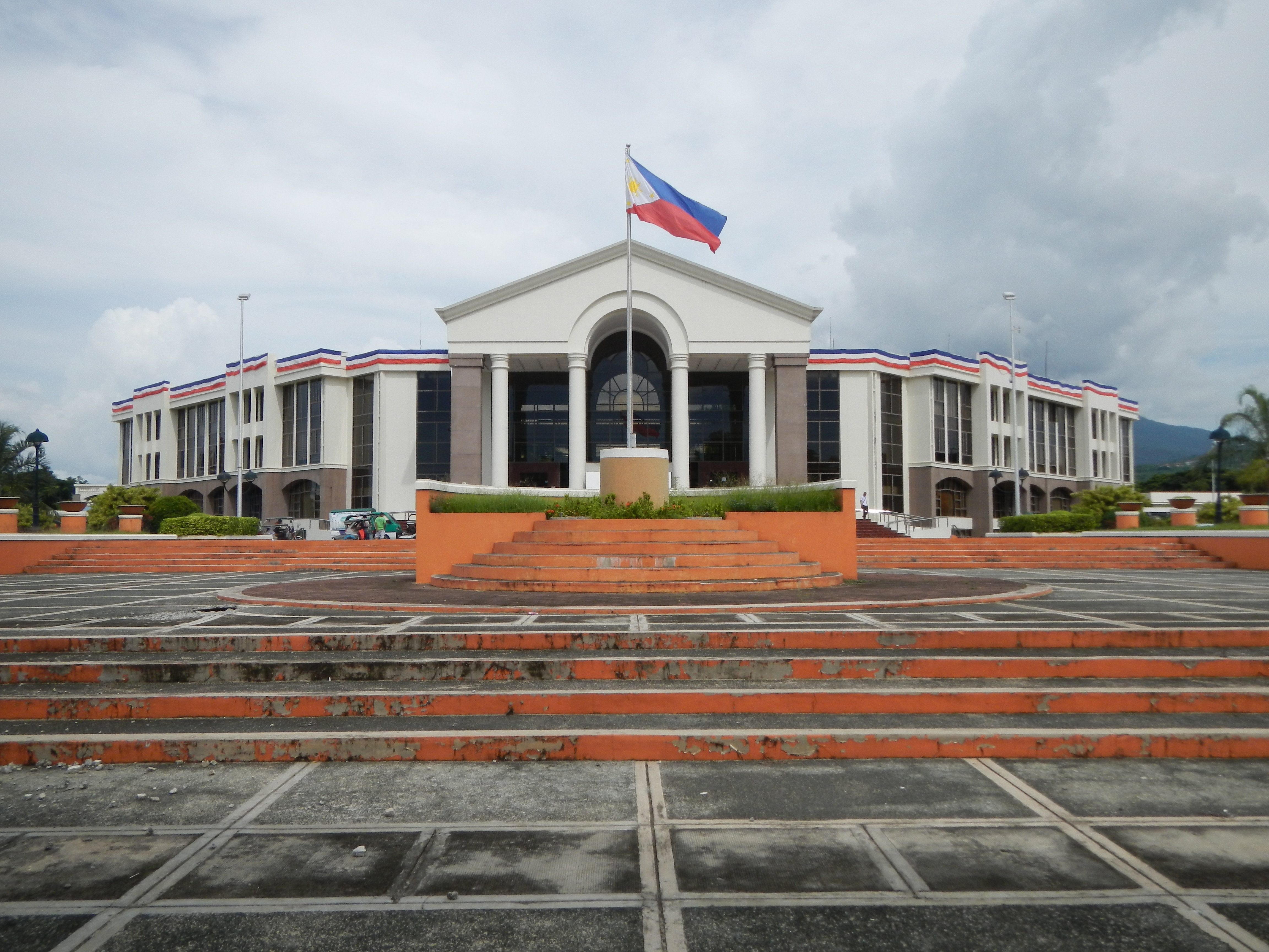 Photos of the New Calamba City Hall Complex - [1] Chipeco Avenue, Real, a 4-storey building excluding the penthouse. It has approximately 9,000 sq.m. of floor area. Coordinates: 14°11'38"N 121°9'35"E --- Calamba, Laguna[2] (NSCB: 043405000) is a component city of Laguna, [3] Philippines. It is the regional center of the CALABARZON region. It is situated 54 kilometres (34 mi) south of Manila, with numerous hot spring resorts, most of which are located in Barangay Pansol and Barangay Bucal. According to the latest census, the city has a population of 389,377, making it the largest local government unit in Laguna. It is also the 4th densest city in the province with more than 2,600 people per square kilometer; Calamba became the second component city of the Laguna by virtue of Republic Act No. 9024, “An Act Converting the Municipality of Calamba, Province of Laguna into a Component City to be known as the City of Calamba.” R.A. 9024 was signed into law by President Gloria Macapagal-Arroyo on March 5, 2001, at the Malacañan Palace. [4] Coordinates: 14°11'15"N 121°6'32"E 2013 Election ResultsMayor: Justin Marc S.B. Chipeco (Nacionalista)[5] Vice Mayor: Roseller H. Rizal (Nacionalista) [6] geographical location: Laguna, Region 4, Philippines, Asia Geographical coordinates: 14° 12' 42" North, 121° 9' 55" East This place is situated in Laguna, Region 4, Philippines, its geographical coordinates are 14° 12' 42" North, 121° 9' 55" East and its original name (with diacritics) is Calamba. - José Rizal, [7] Website, New City Hall